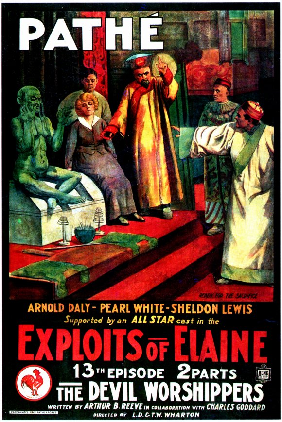 Movie poster for The Exploits of Elaine episode 13, "The Devil Worshippers".